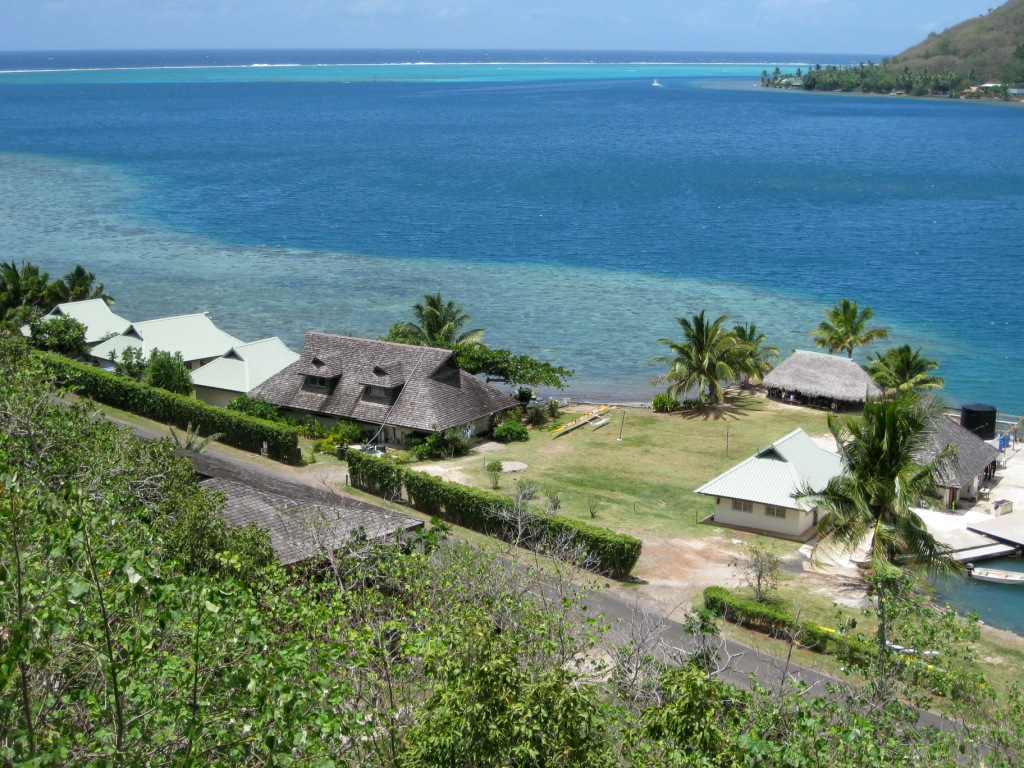 Richard B. Gump field station